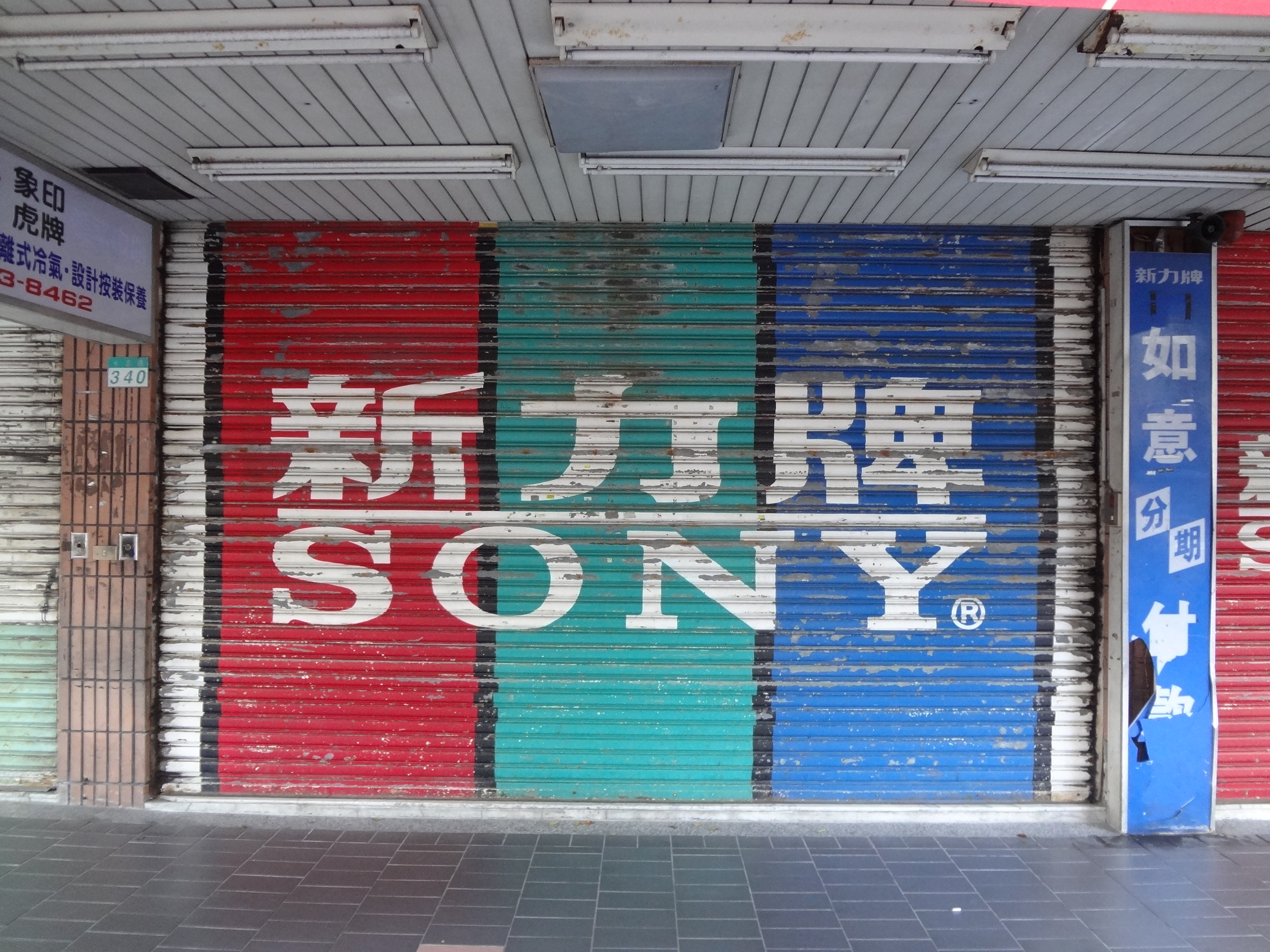 中文（台灣）: 1990年代以前，新力股份有限公司（Sony Industries Taiwan Co., Limited）家電經銷商鐵捲門彩繪格式。